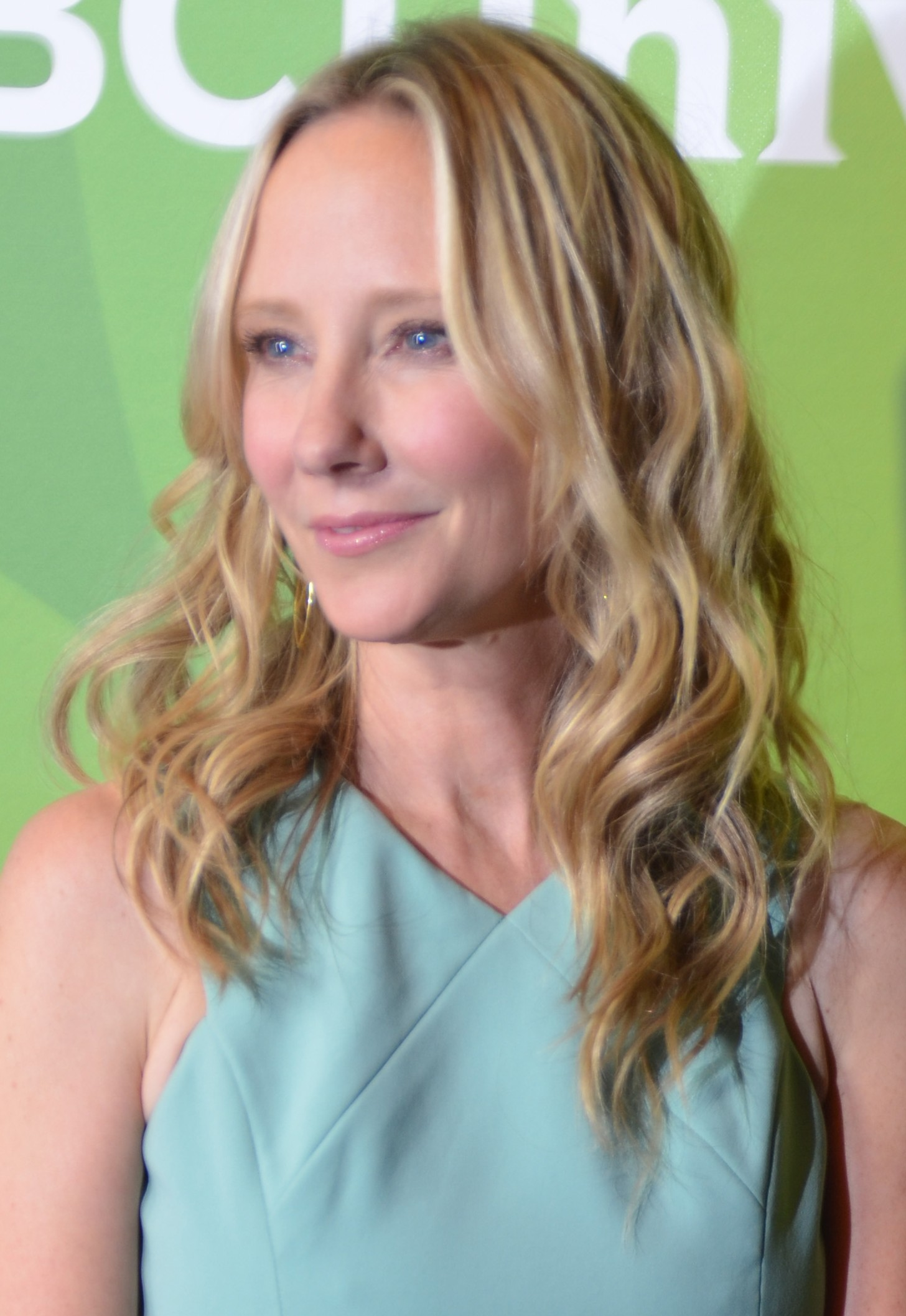 Actress Anne Heche at NBCUniversal's 2014 Summer TCA Tour on July 14, 2014